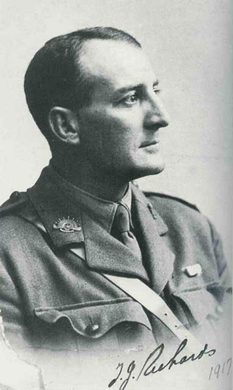 Australian rugby union player Tom Richards